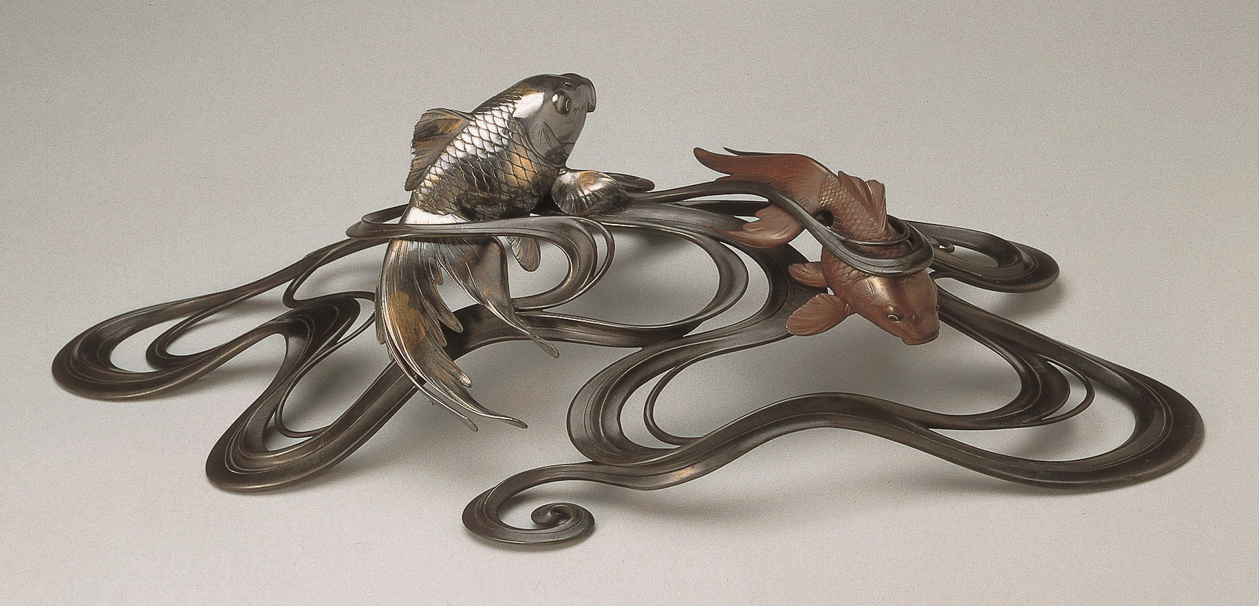 Ornament of Fish in Waves (Okimono) from the Khalili Collection of Japanese Meiji Art. Japan circa 1900. Signed Joan saku [made by Joun] Described at and in J. Earle, Splendors of Imperial Japan: Arts of the Meiji period from the Khalili Collection, London 2002, cat. 198, pp. 284–5.